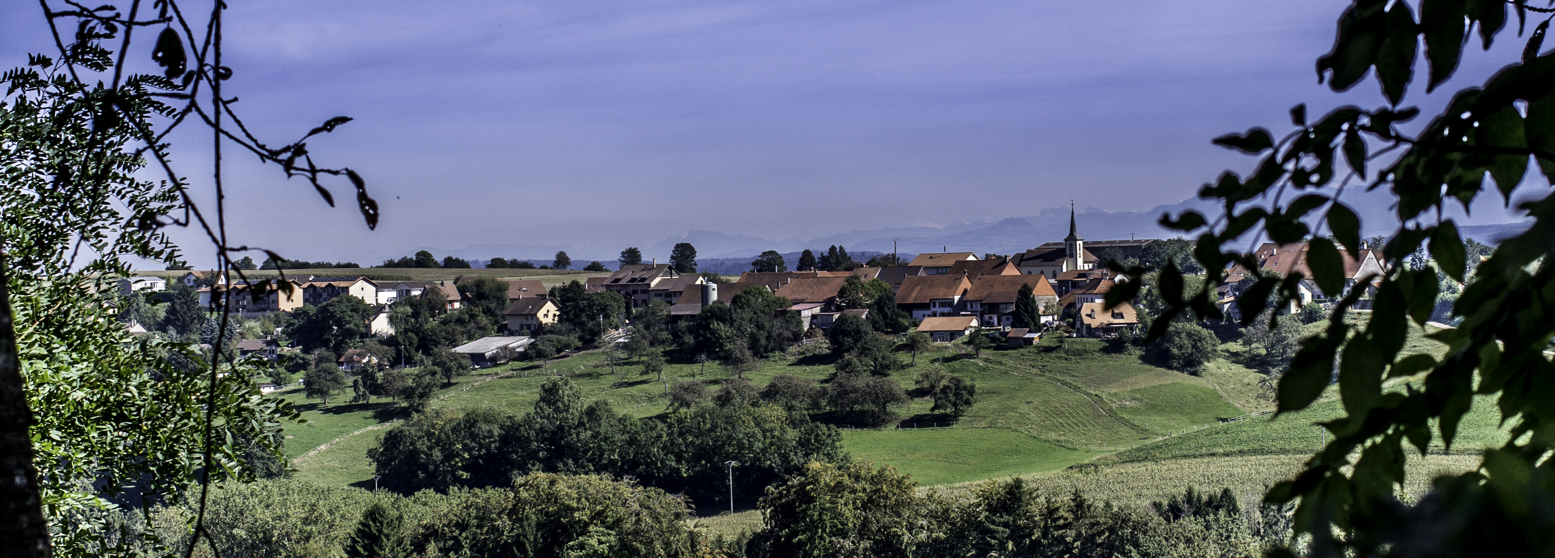 A view of Seiry, Switzerland